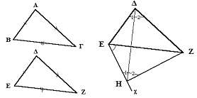 Determining congruence of triangles SSS comparison